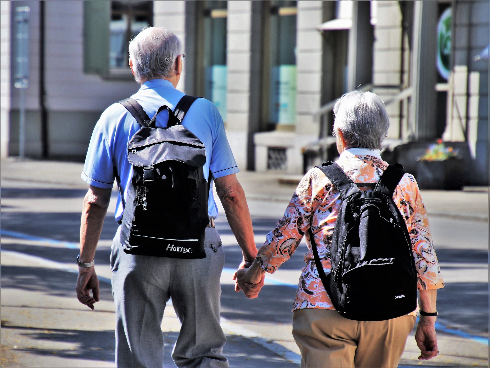 Older couple holding hands seen from behind.